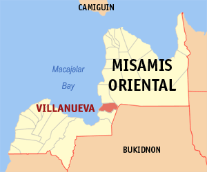 Map of the Misamis Oriental showing the location of Villanueva